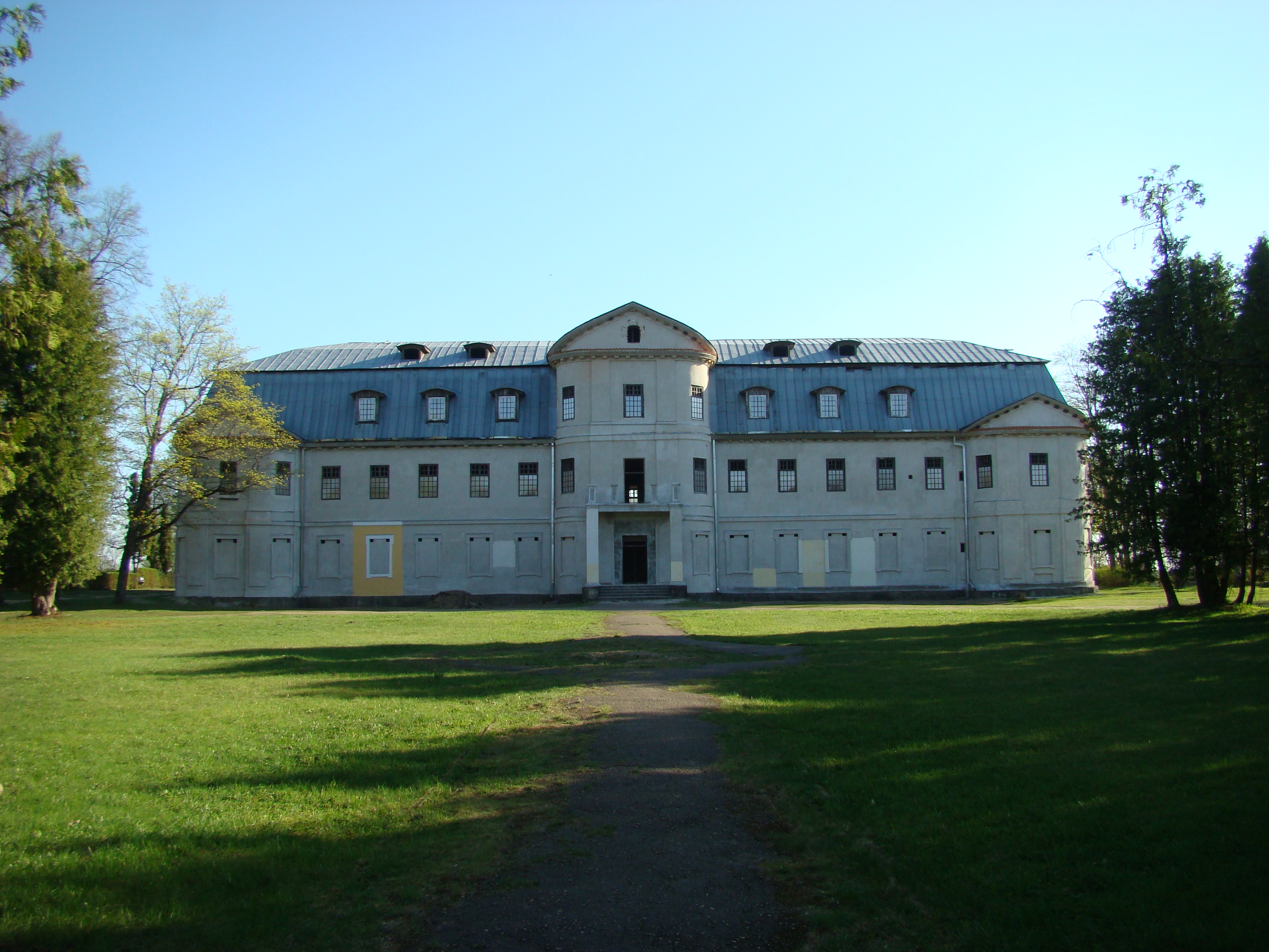 Krāslava palace in Latvia (under restoration).